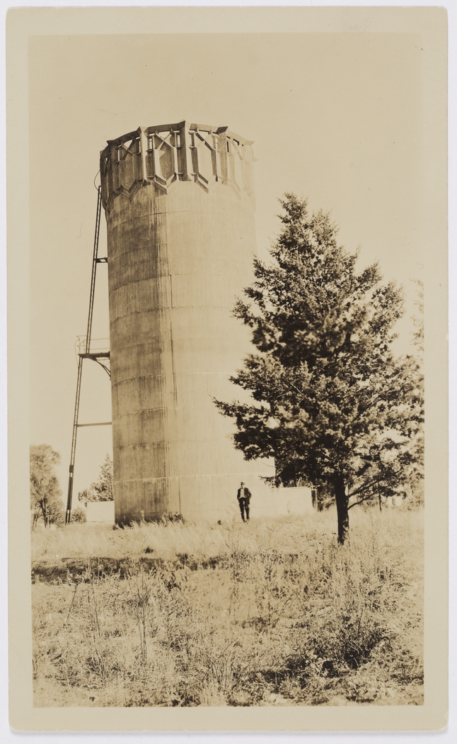 Image of water tower designed by Walter Burley Griffin, taken in 1912 or 1913, situated in Leeton, NSW, Australia.